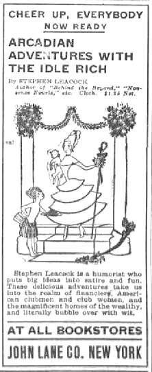 Newspaper ad for the book with a caricature of the women.